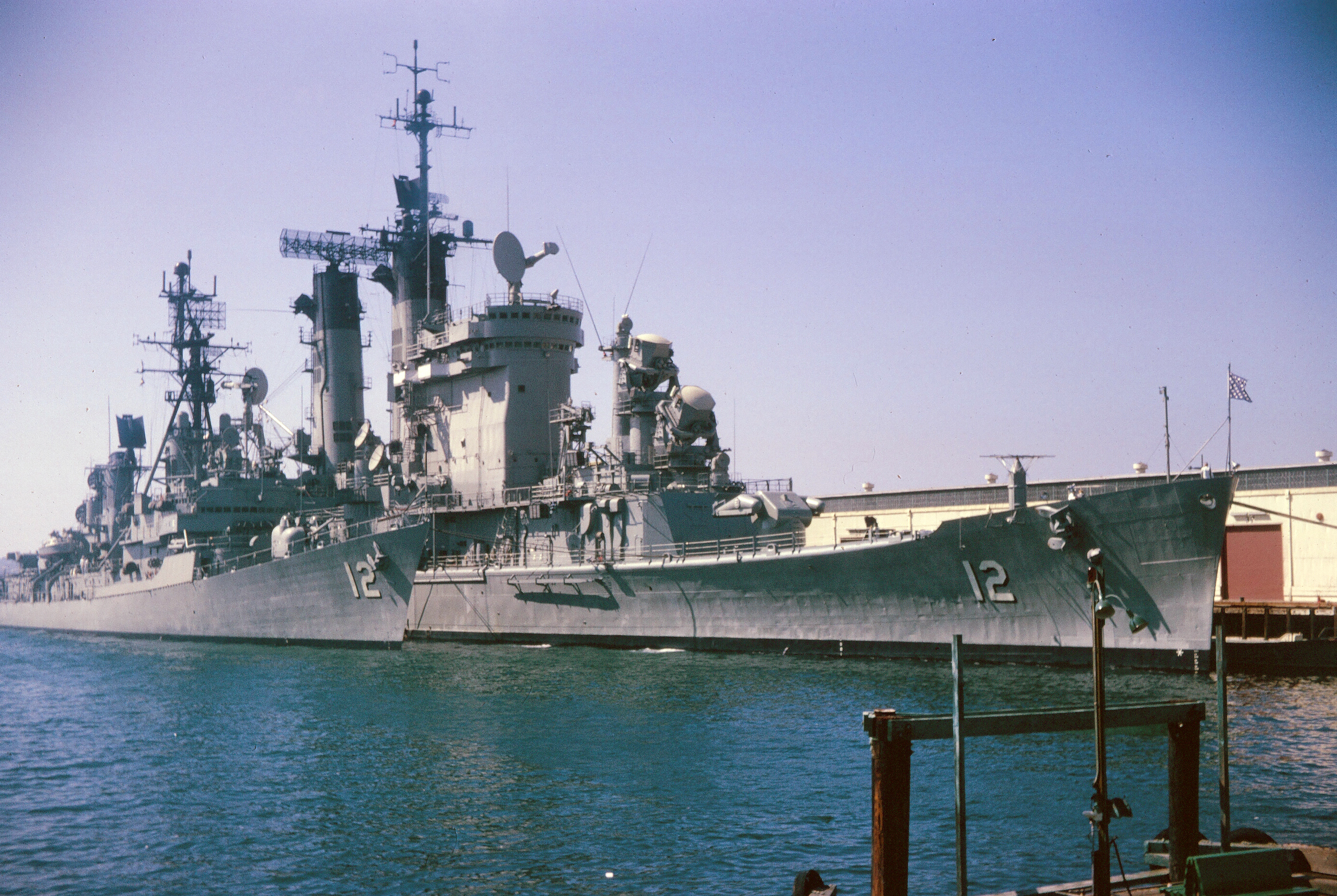 The U.S. Navy guided missile destroyer USS Robison (DDG-12) and the guided missile cruiser USS Columbus (CG-12) in San Diego Harbor, California (USA), June 1965.